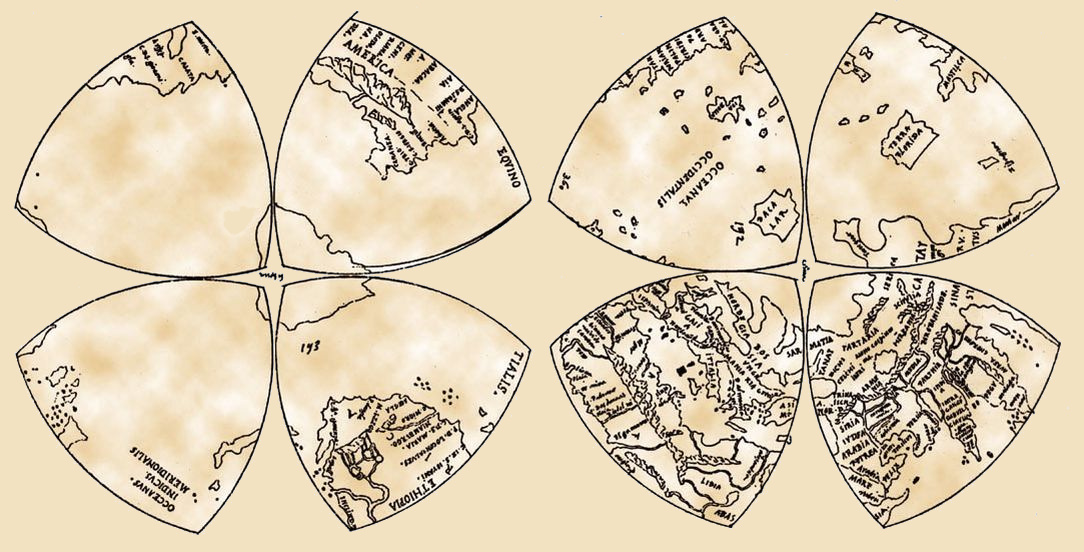 Leonardoś World map showing the name of America existing in the Windsor's Library